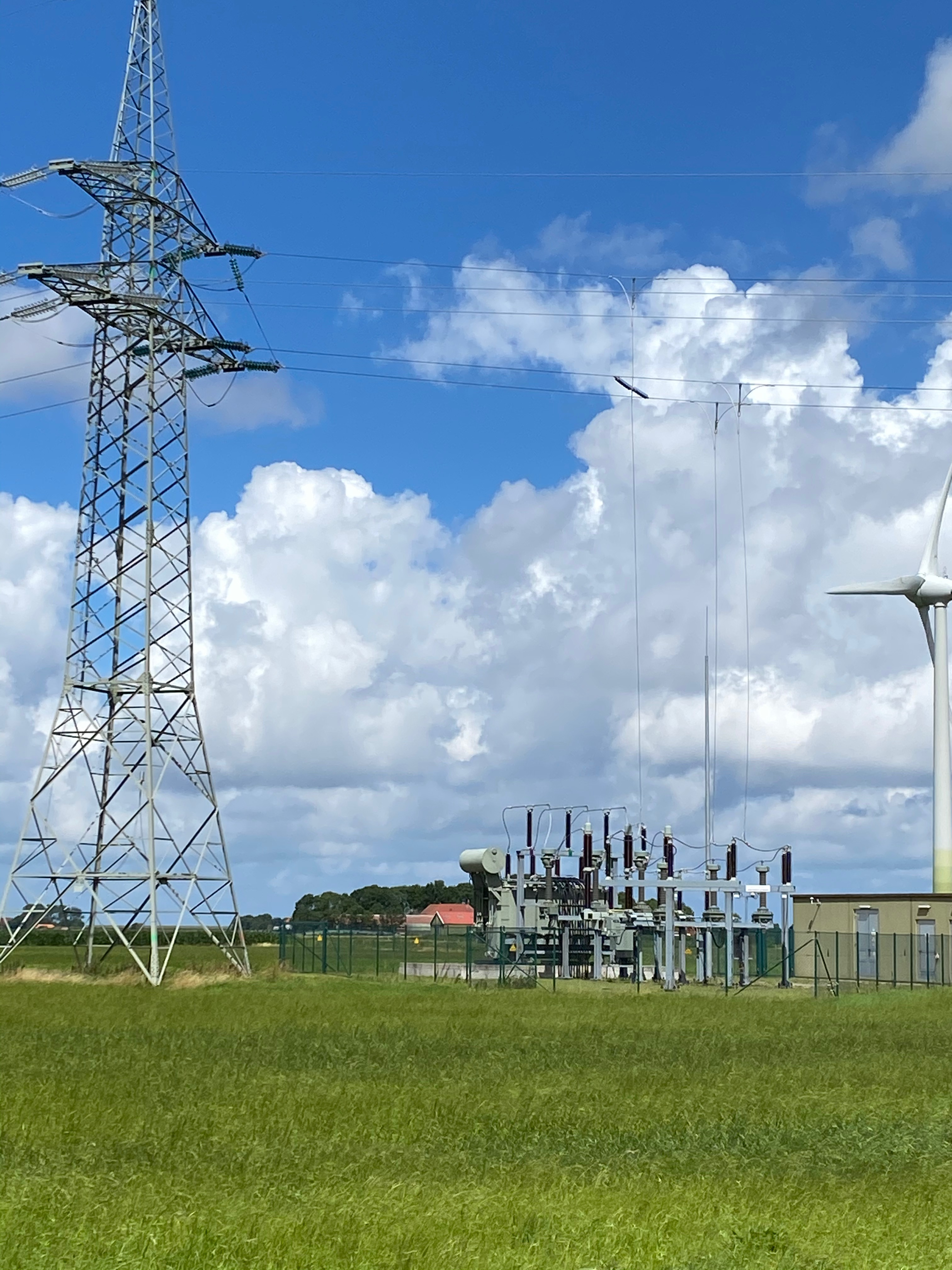 Norden (Ostermarsch), Germany: High-voltage substation at Wester Wischer